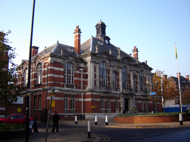 Tottenham Town Hall, Haringey, London. 22 November 2005. Photographer: Fin Fahey.